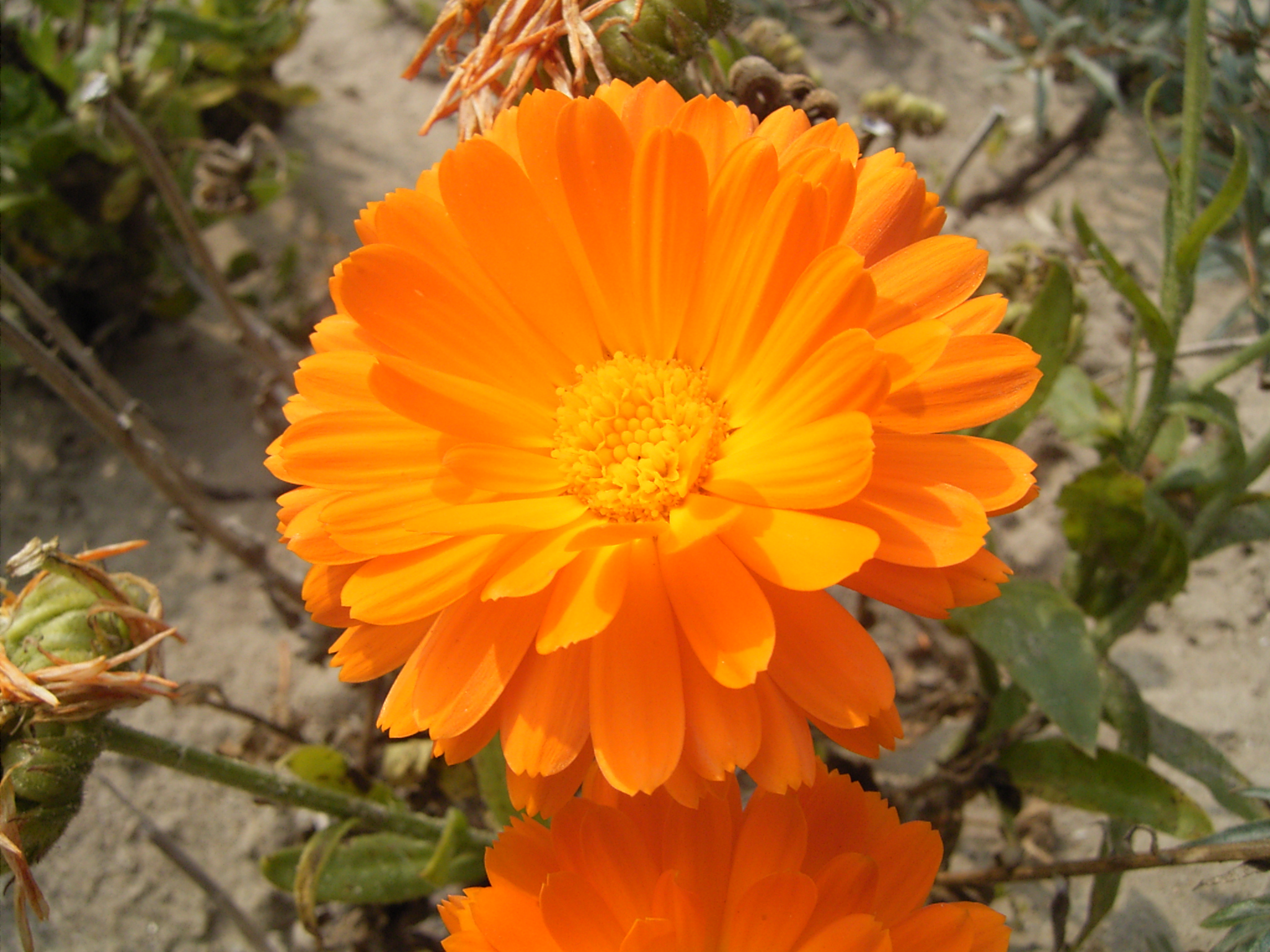 Calendula officinalis